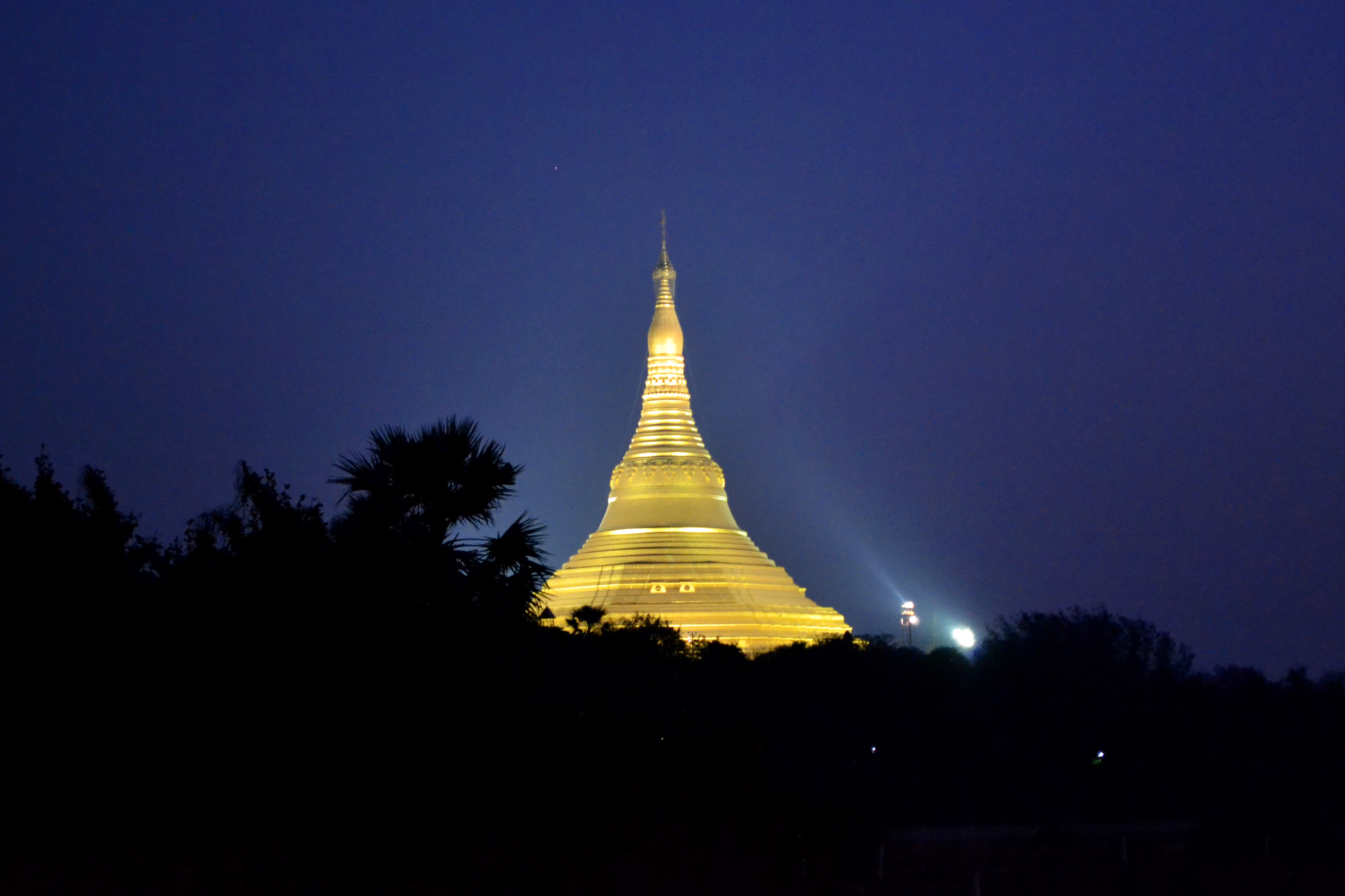 Pagoda is built out of gratitude to the Buddha and located at Gorai, North Mumbai.